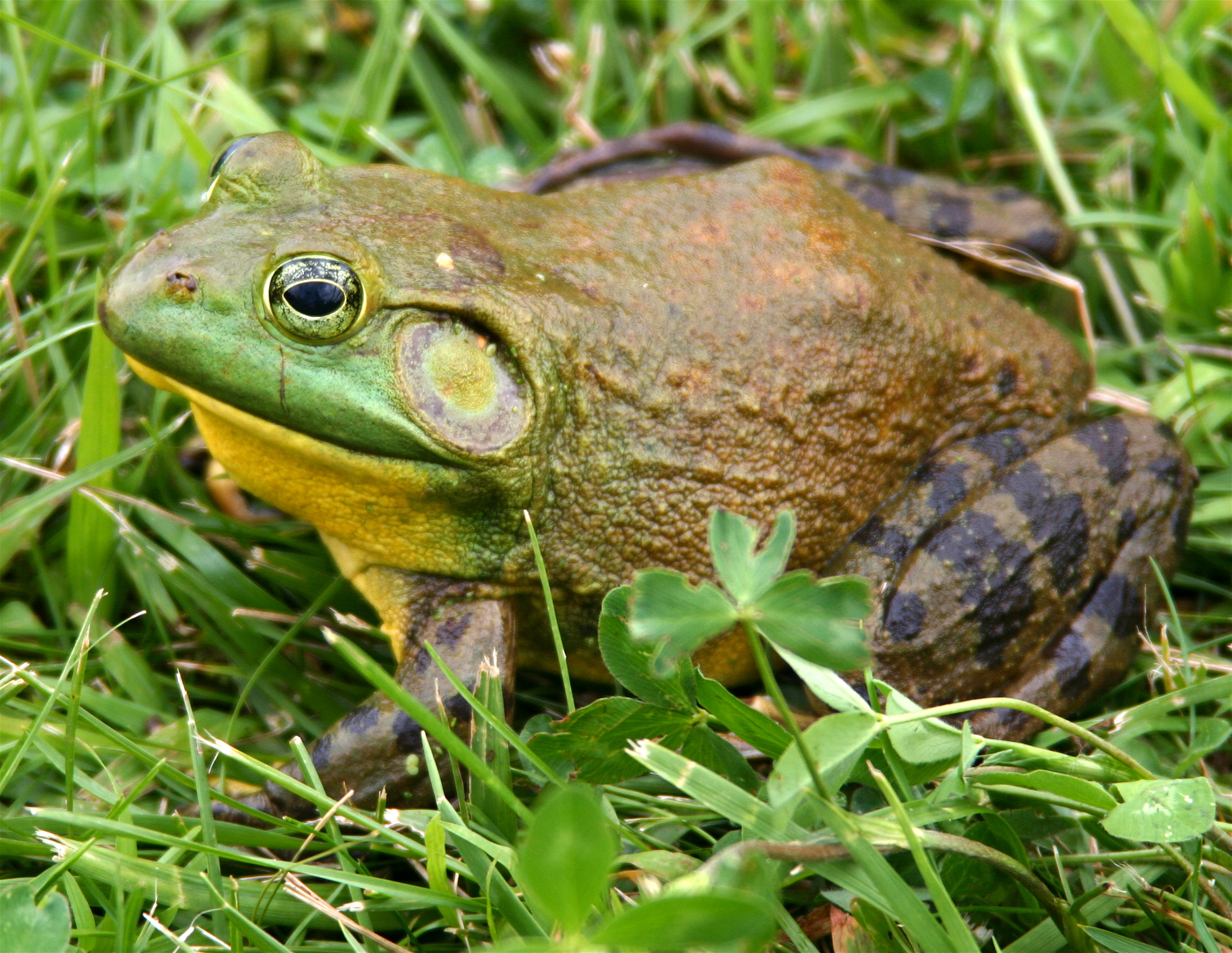 North American bullfrog (Rana catesbeiana)